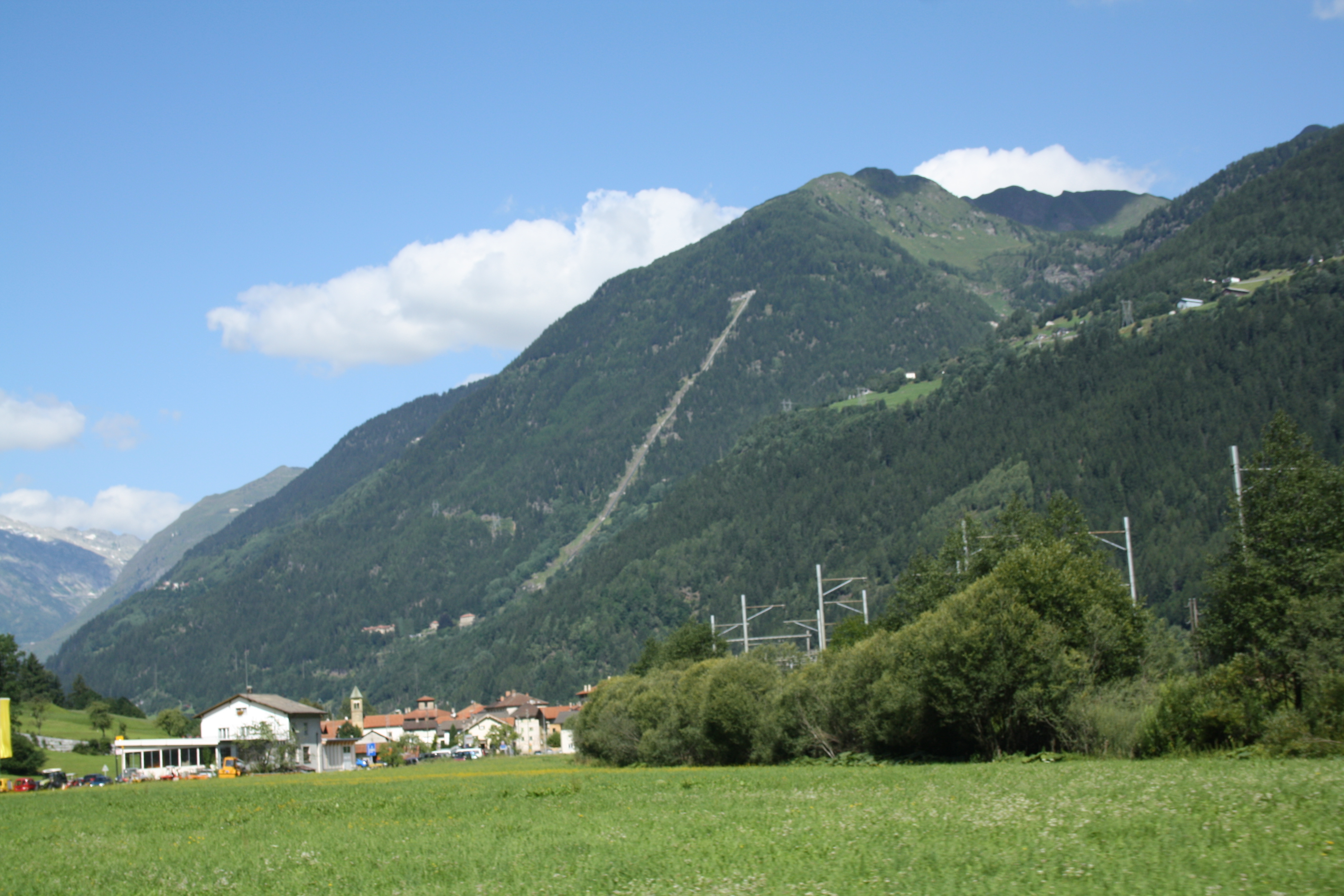 Funicular from Piotta to Ritom lake seen from Quinto. The funicular with a maximum gradient of 878‰ was built as means of access to the lake but is now in use a tourist attraction in the Leventina.